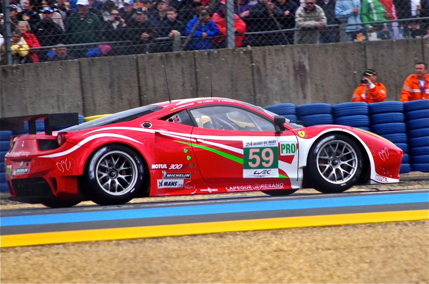 Luxury Racing's Ferrari 458 Italia Driven by Gianmaria Bruni, Giancarlo Fisichella and Toni Vilander at Le Mans 2012.